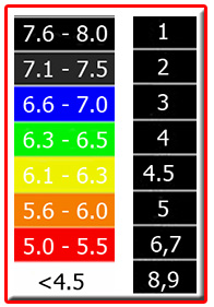 John Bortle created a light pollution scale (Bortle Dark-Sky Scale) for the February 2001 edition of Sky and Telescope Magazine, and used (her for Example) to characterize the quality of the nighttime environment in terms of presence / absence of light pollution